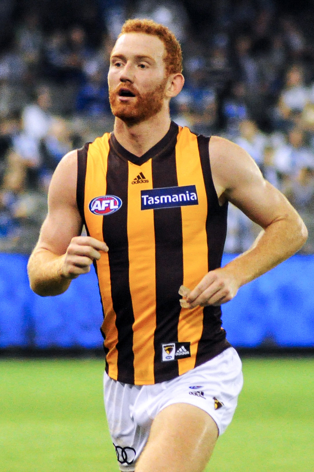 Conor Glass during the AFL round five match between North Melbourne and Hawthorn on Sunday, 22 April 2018 at Etihad Stadium in Melbourne, Victoria.